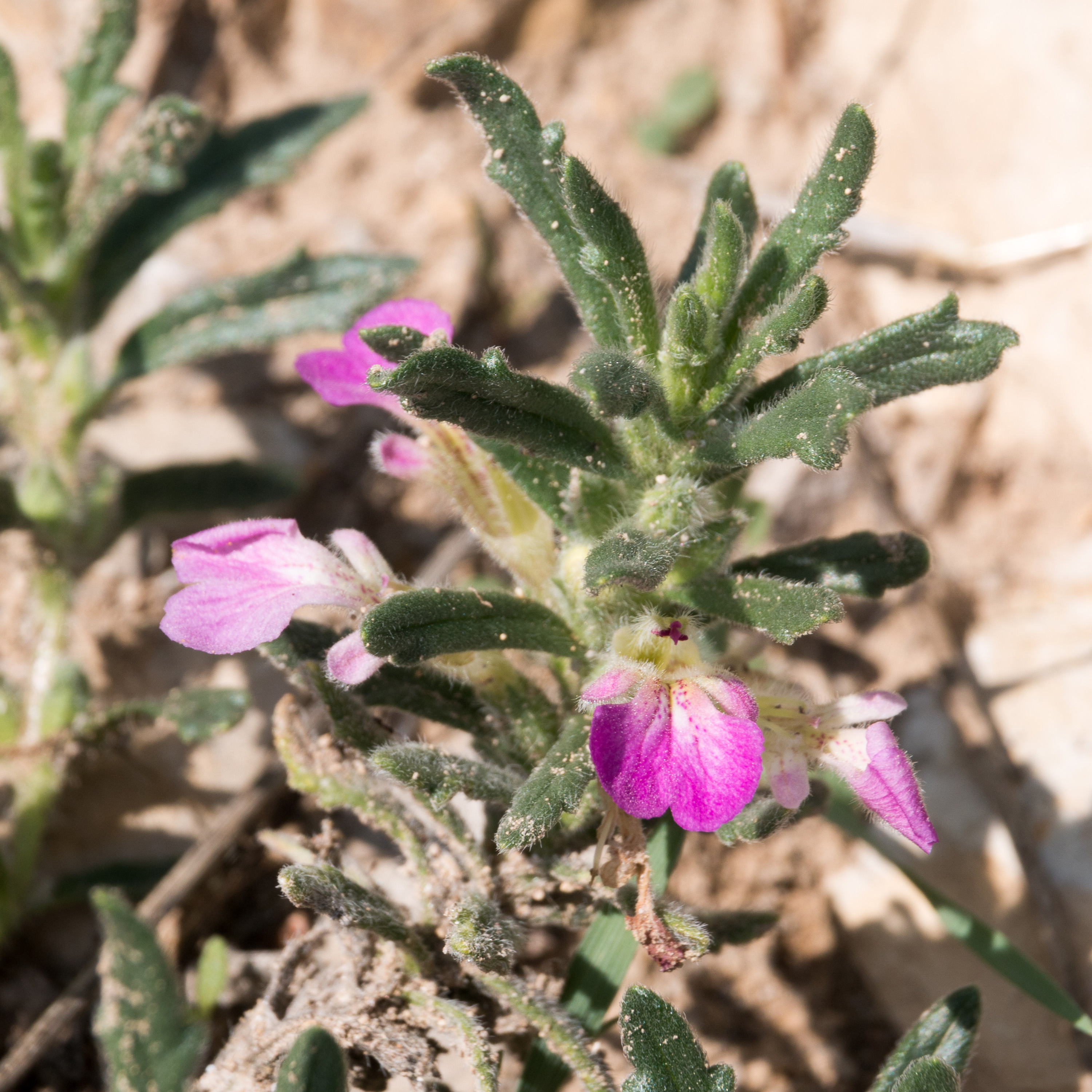 Leaves of a Ajuga iva